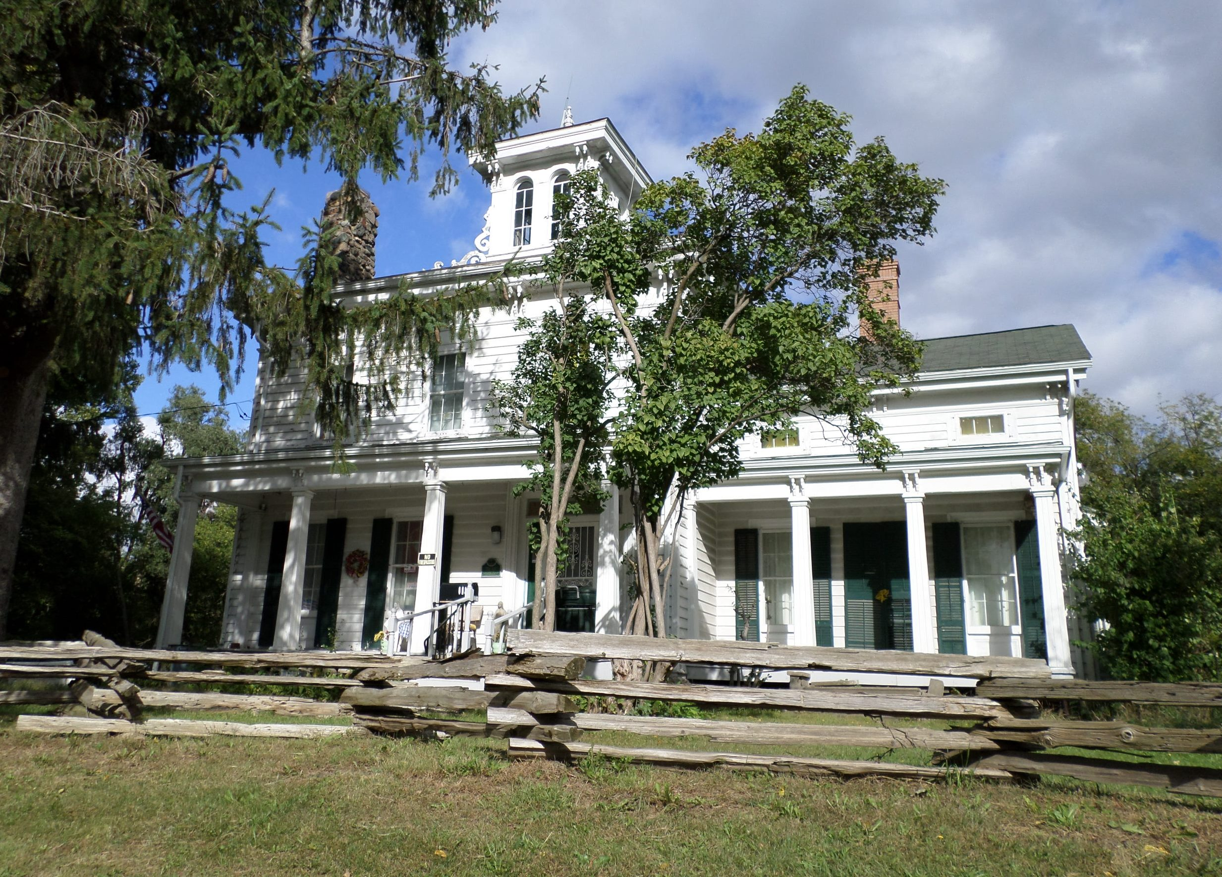 The Robert P. Aitken Farmhouse, located at 1110 N. Linden Rd, Flint, MI.